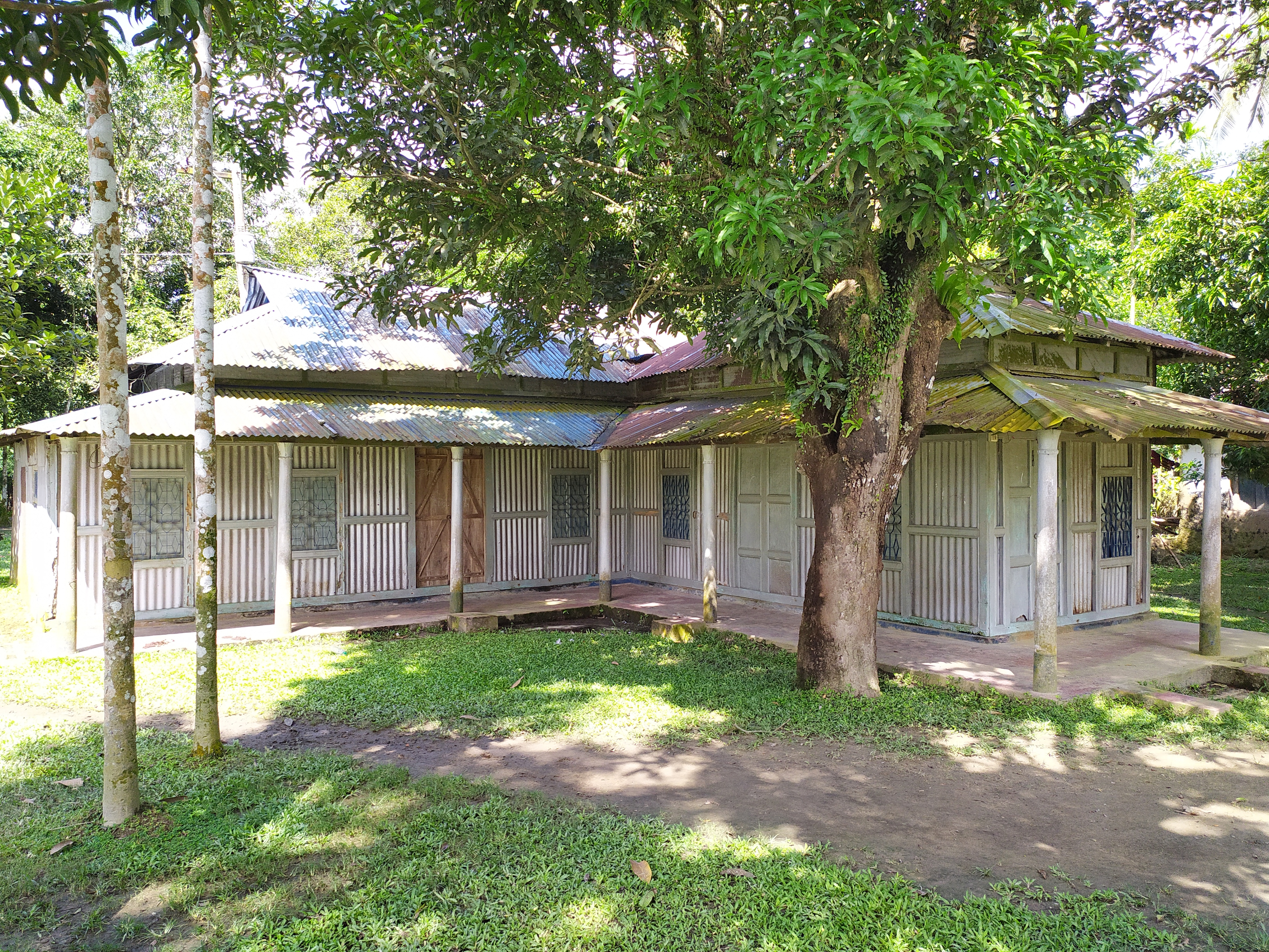 Home of Nirmalendu Goon